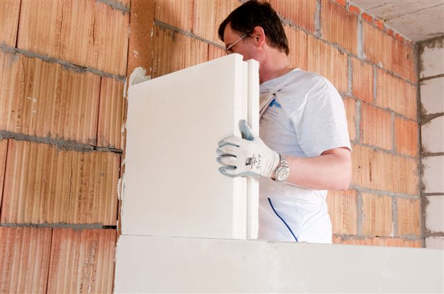 Partition wall, solid gpsum blocks.